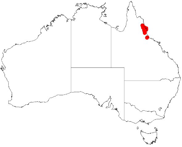 Bertya polystigma Occurrence data downloaded on 22 June 2019 from Australasian Virtual Herbarium using